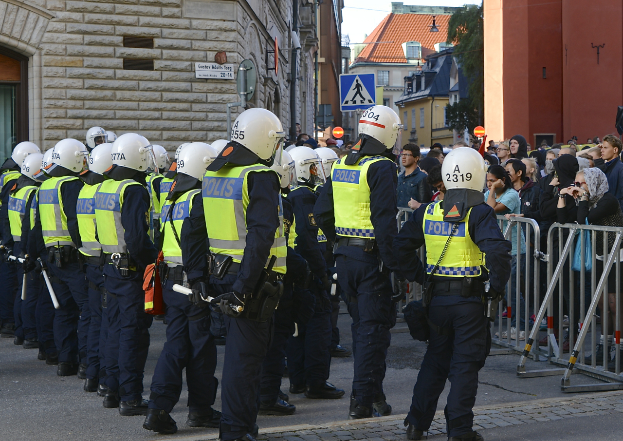 SvP rally in Stockholm August 30, 2014.